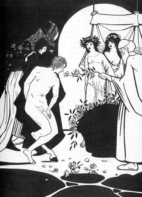 Illustration to a French version of The Golden Ass. Here Lucius is returned to human form at the procession of Isis.